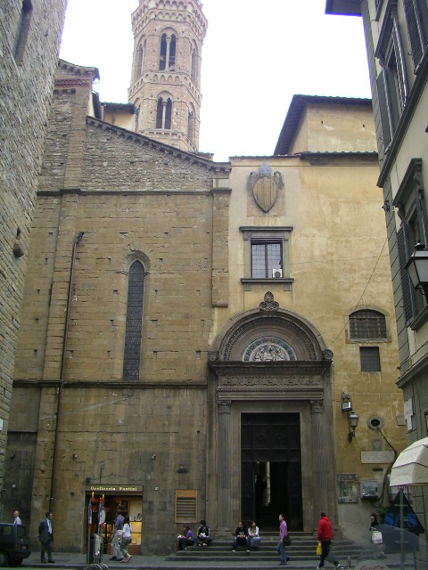 Badia Fiorentina entrance church facade in Florence, Italy. the portal is by Benedetto da Rovezzano